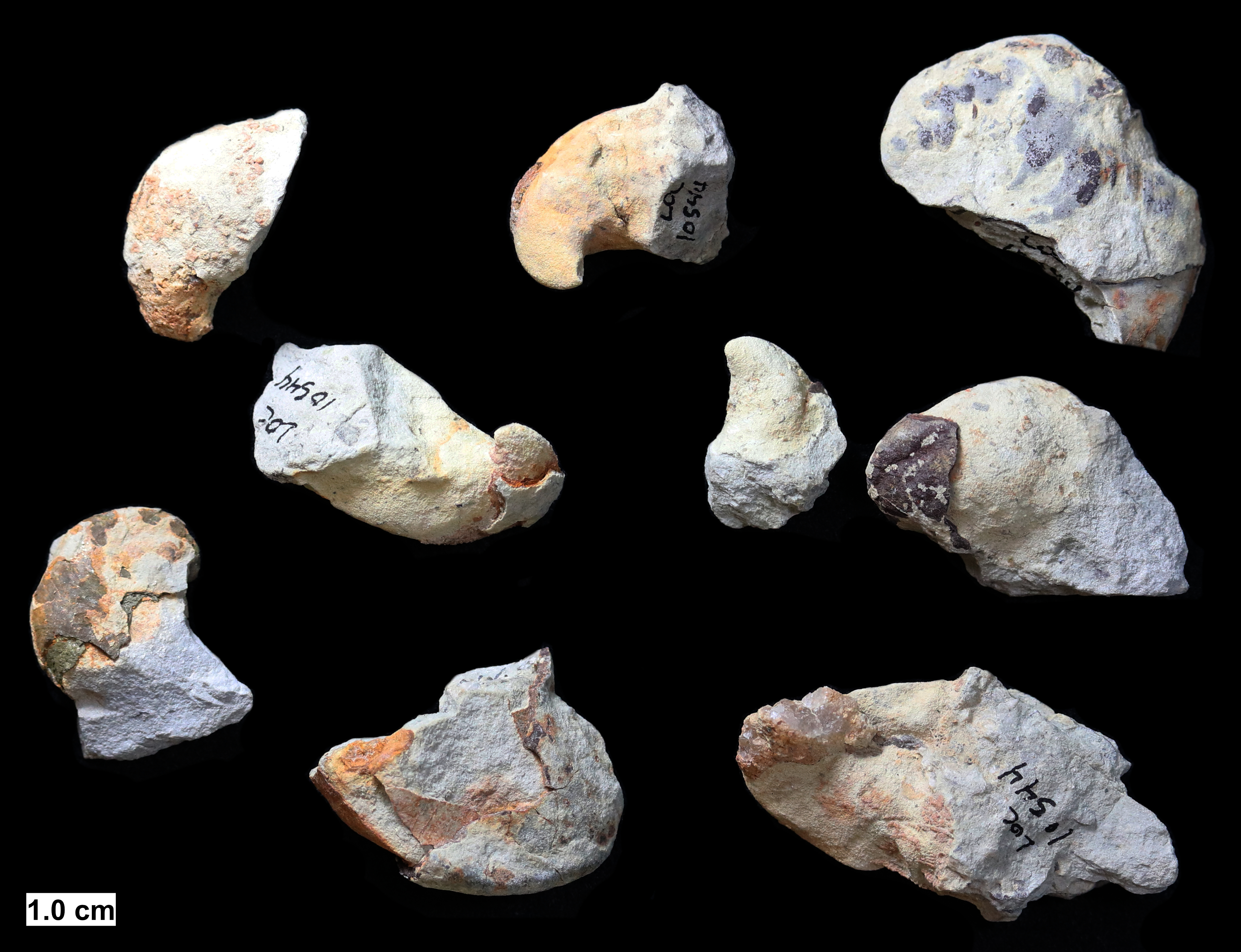 The Devonian gastropod Platyceras; Milwaukee Formation; Lindwurm Member; Milwaukee County, Wisconsin; MPM-KCG uncatalogued; photograph originally published in K.C. Gass, J. Kluessendorf, D.G. Mikulic, and C.E. Brett, 2019. Fossils of the Milwaukee Formation: A Diverse Middle Devonian Biota from Wisconsin, USA. Siri Scientific Press, Manchester, UK.